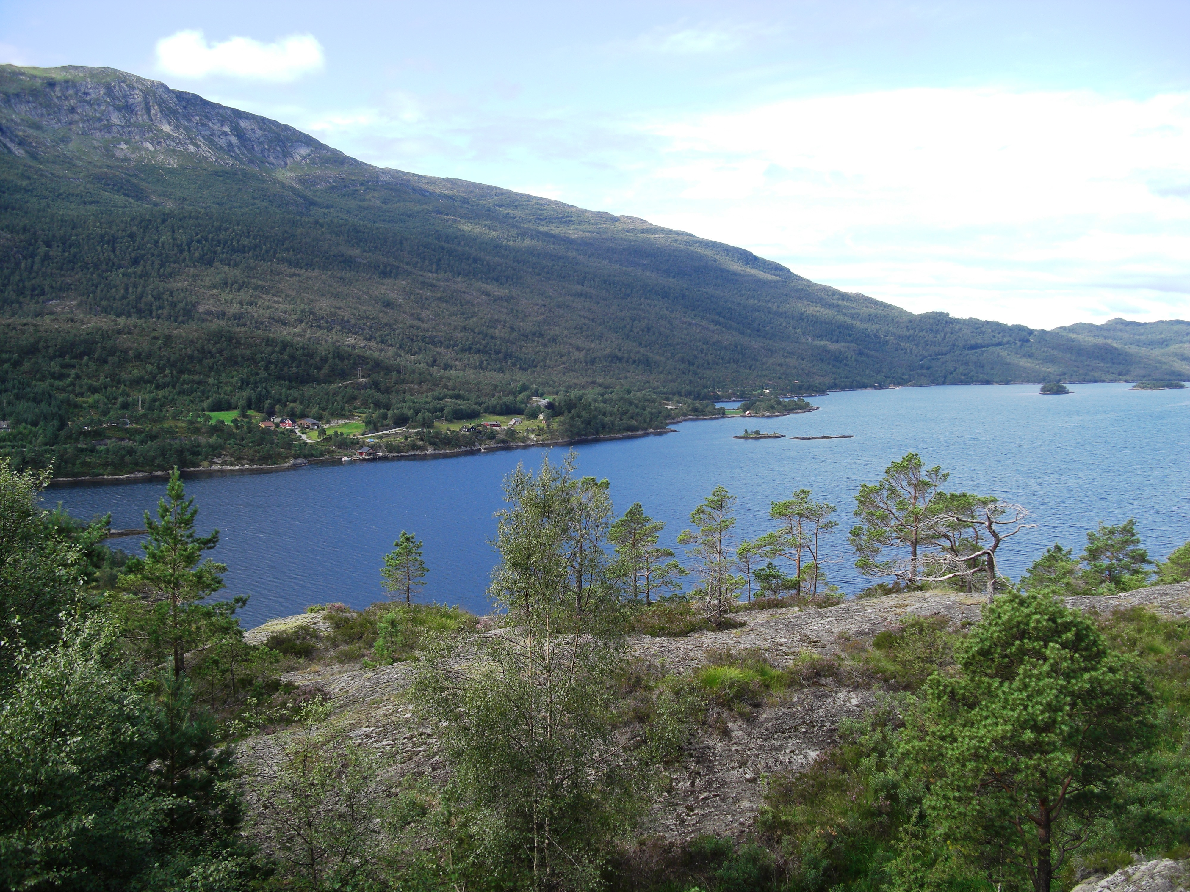 Ausevik, Flora